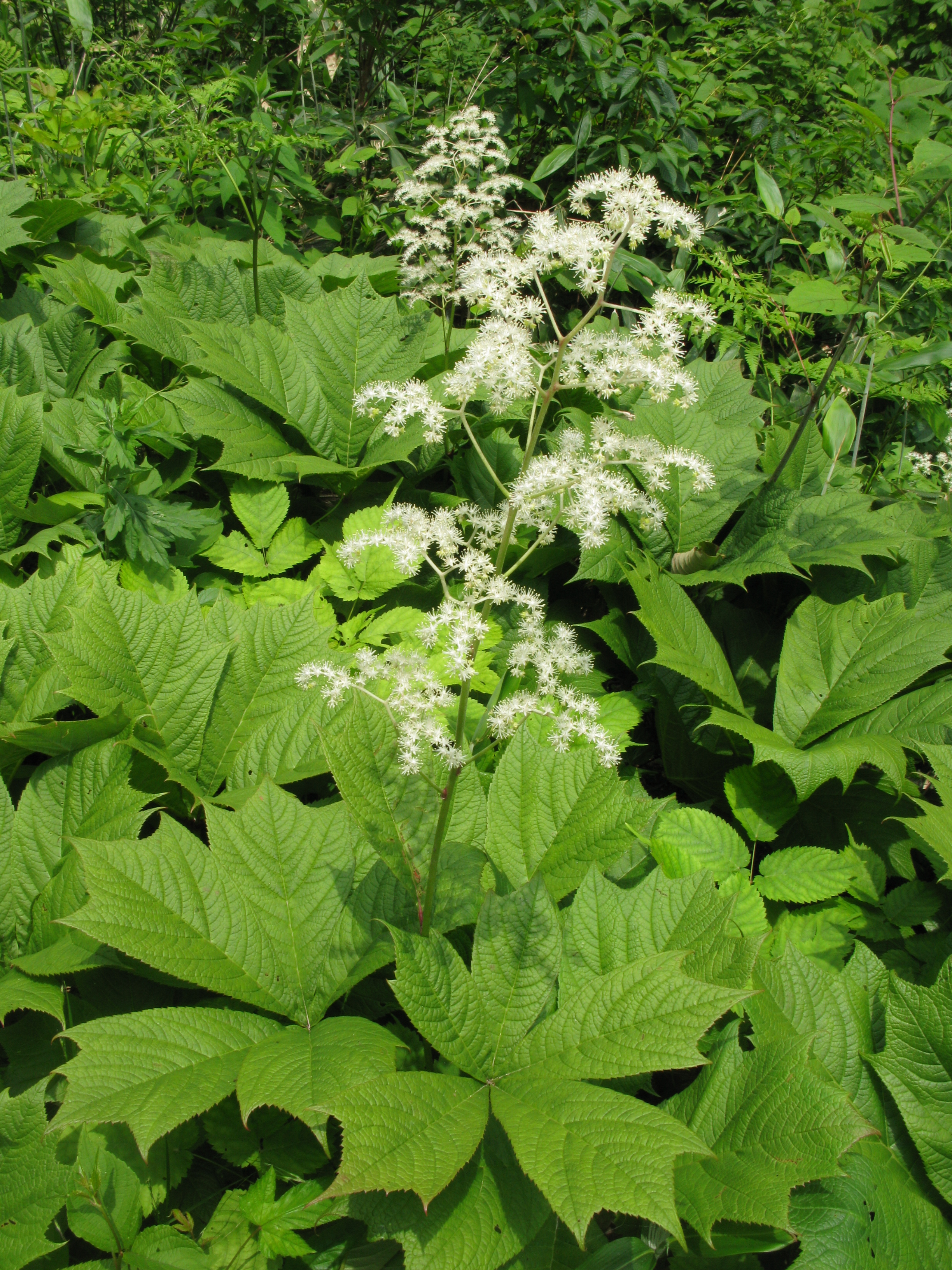 Rodgersia podophylla, Aizu area, Fukushima pref., Japan